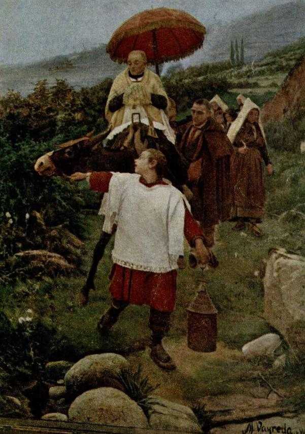 El viatico (El Combregar a la muntanya), painting of Marian Vayreda